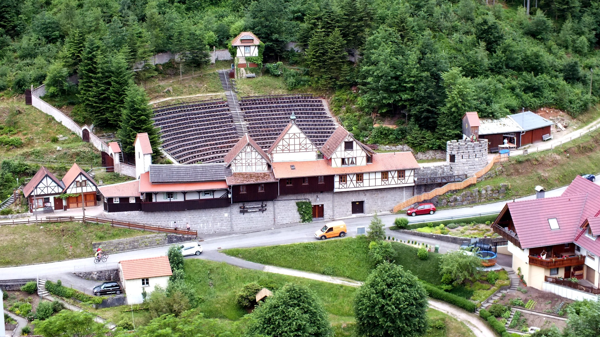 outdoor theater of Hornberg, Germany